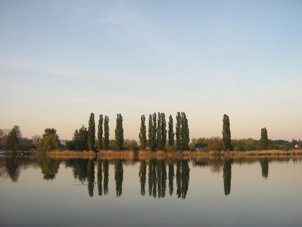 River Havel near Phöben (Brandenburg, Germany).